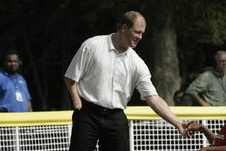 Former Major League pitcher Jim Abbott congratulates a player from the Challenger Phillies from Middletown, Delaware at Tee Ball on the South Lawn at the White House. Chopped Photo